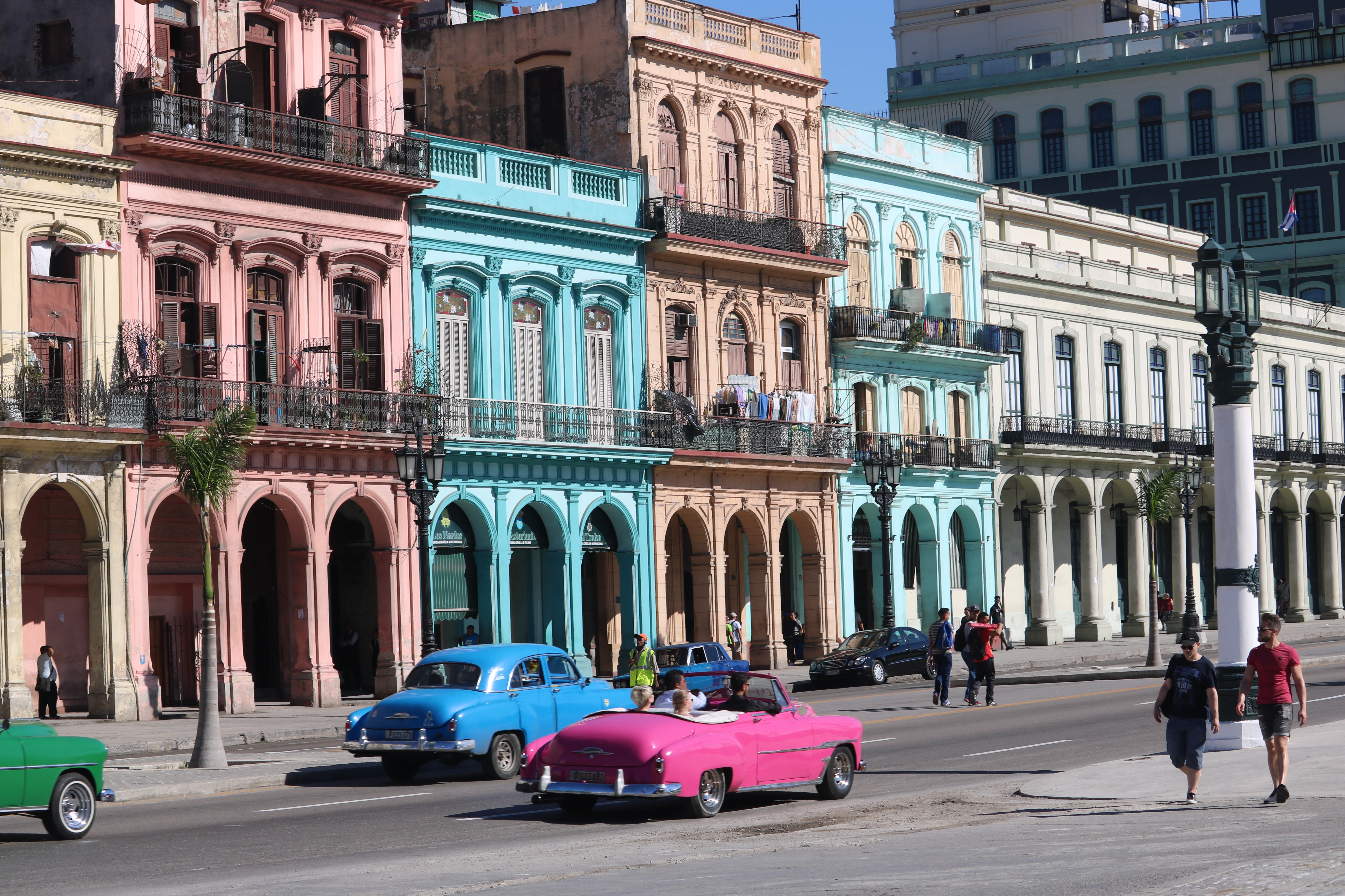 Architecture Travel City Street Tourism Cuba